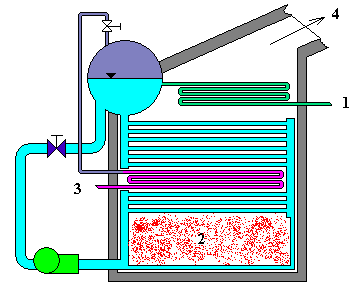 Design of water tube forced flow boiler